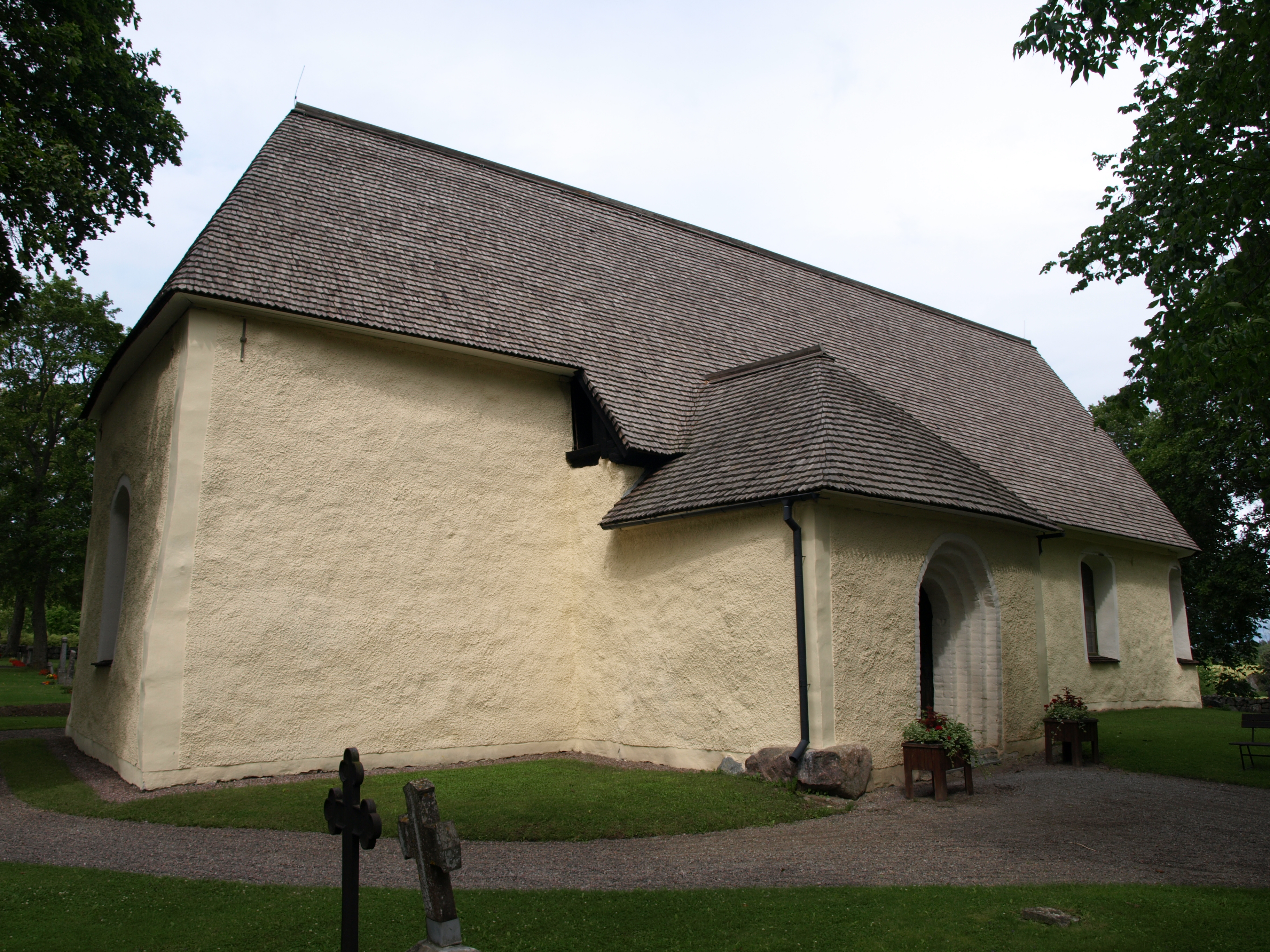 Gryta church, Uppland, Sweden